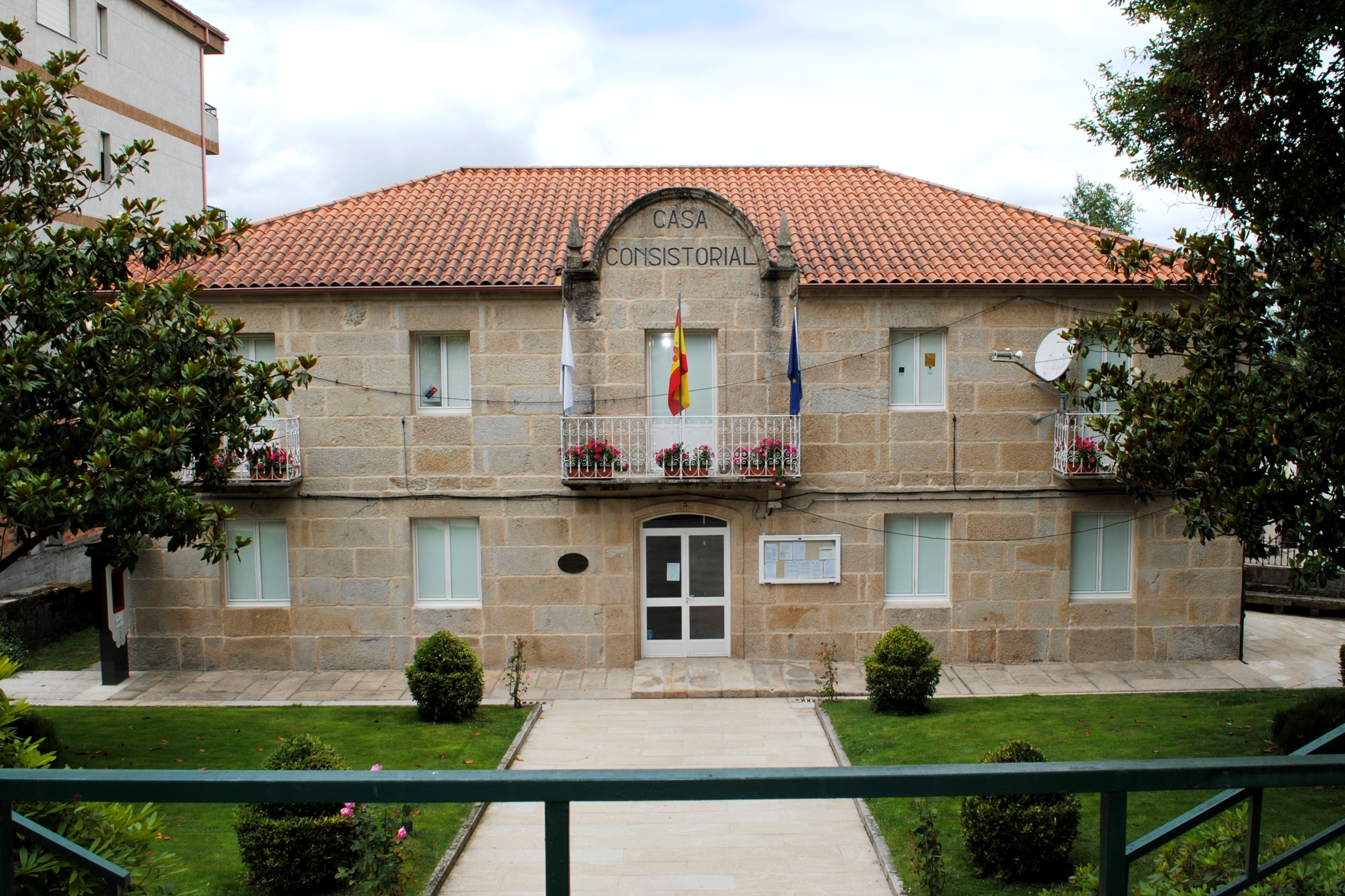 See title.